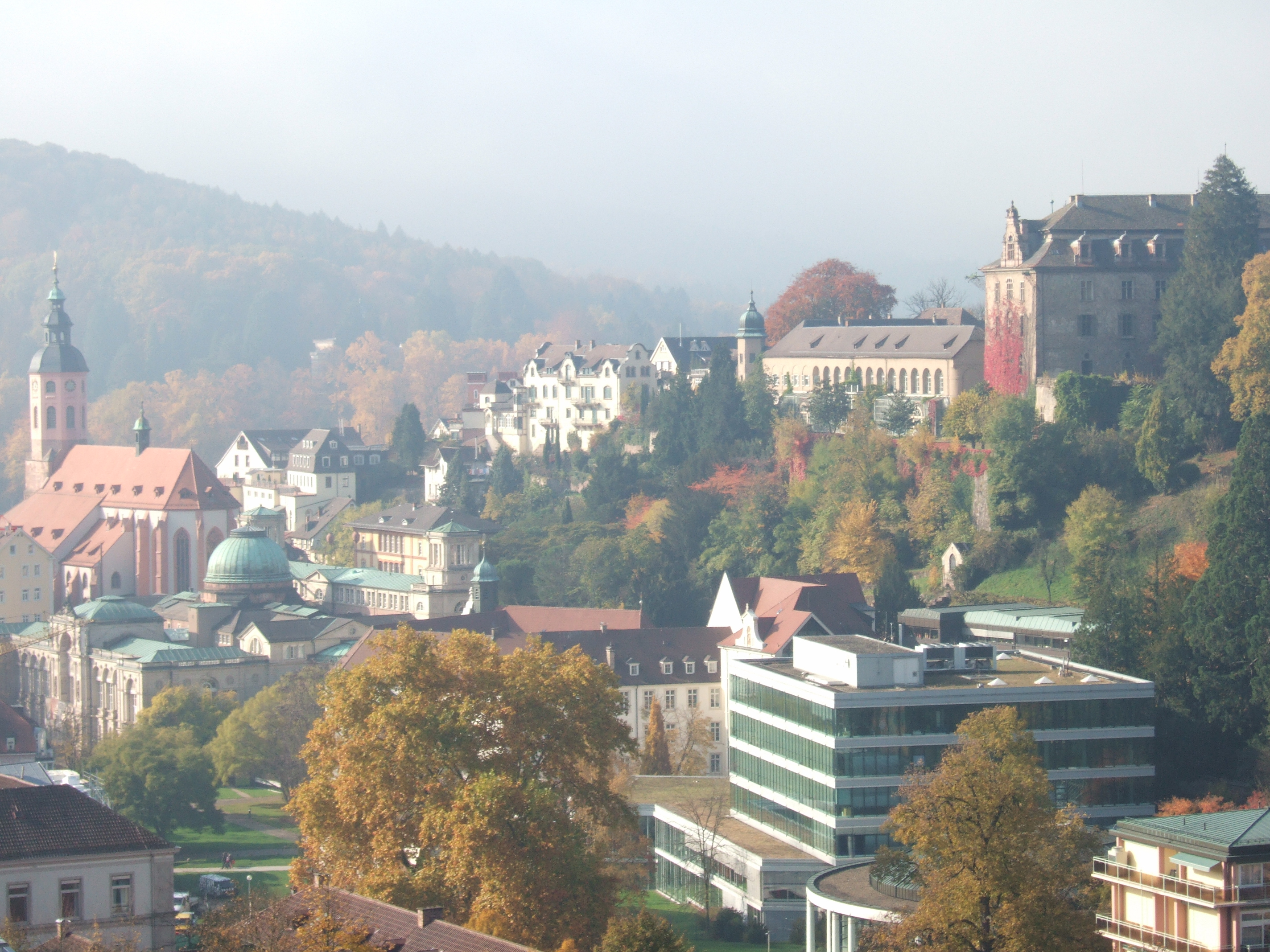 View of Baden-baden from Wasserkunstanlage Paradies